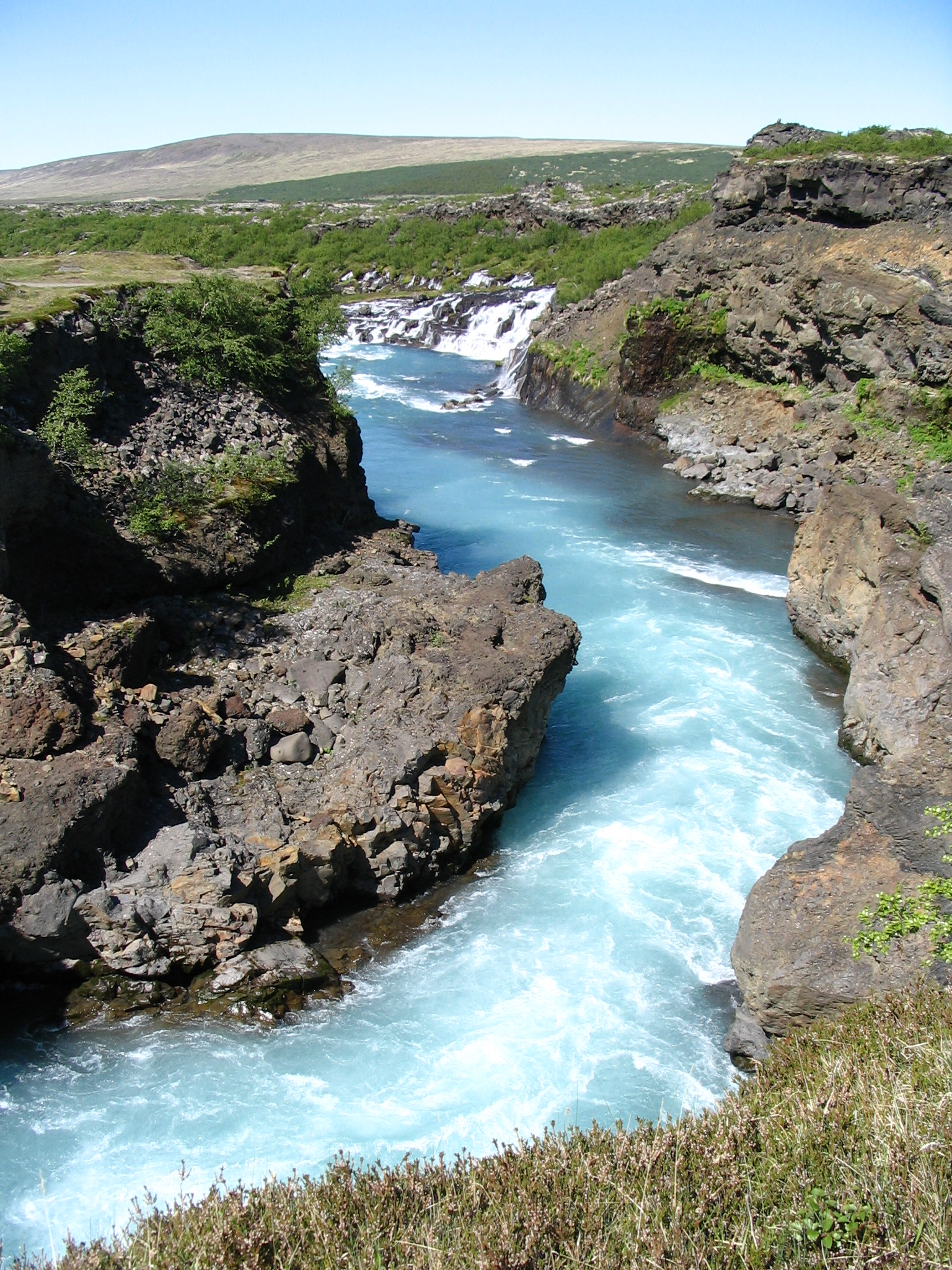 Hraunfossar, Iceland